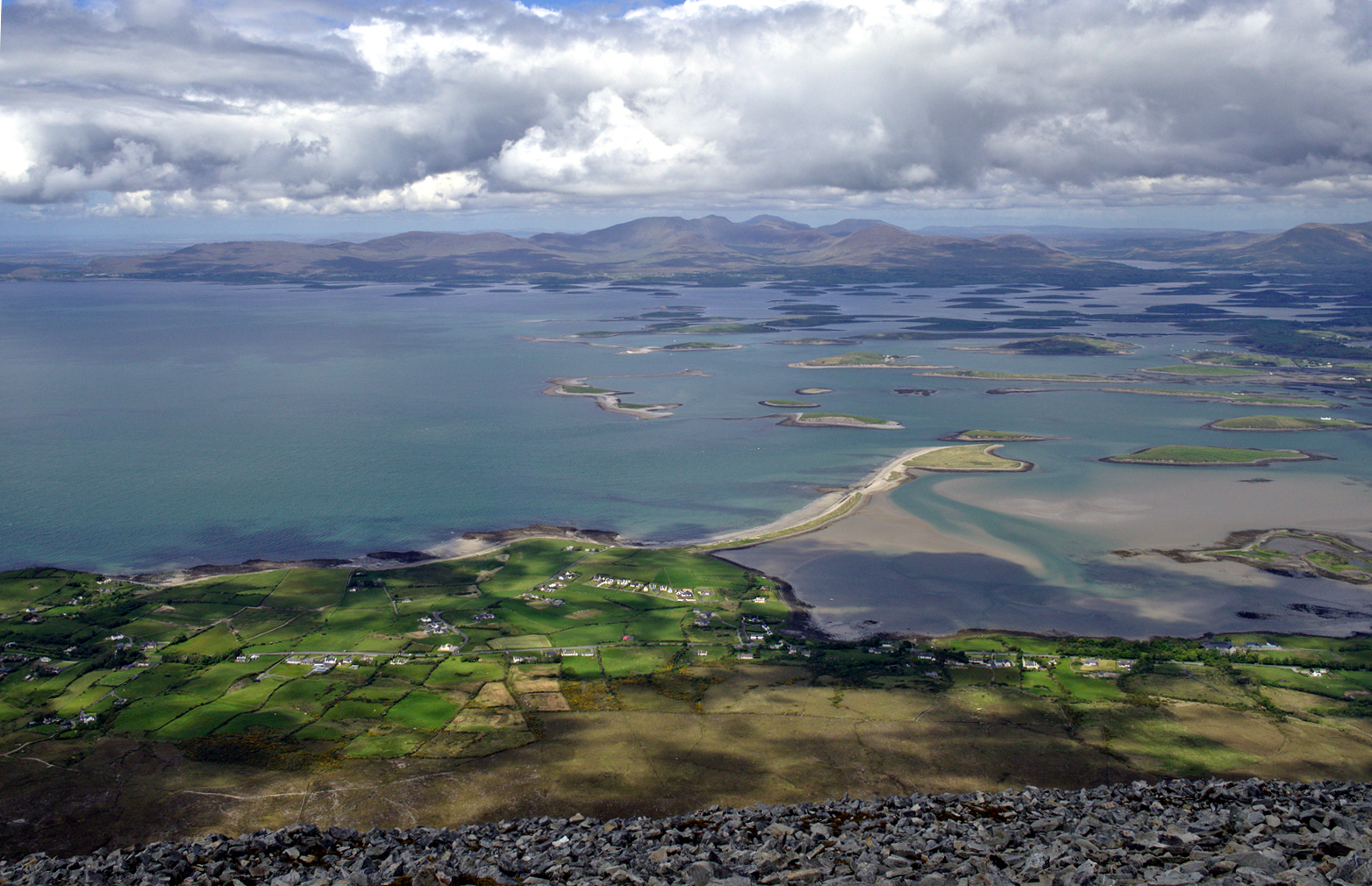 Clew Bay, Co, Mayo in June 2015 by Mariusz Z